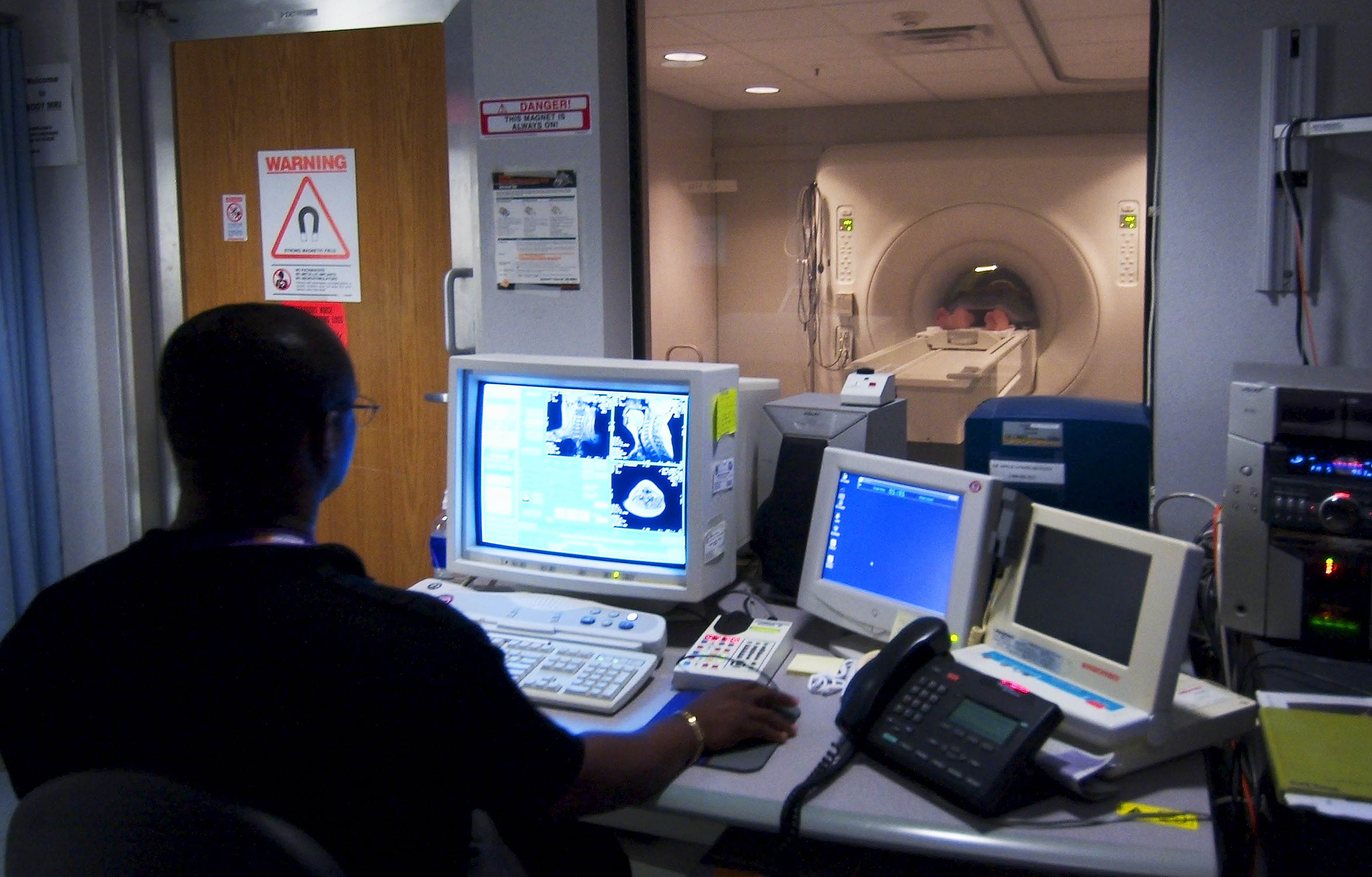 National Naval Medical Center, Bethesda, Md., (Aug. 19, 2003) -- Civilian technician, Jose Araujo watches as a patient goes through a Magnetic Resonance Imaging, (MRI) machine at the National Naval Medical Center in Bethesda, Maryland. U.S.Navy photo by Chief Warrant Officer 4 Seth Rossman. (RELEASED)